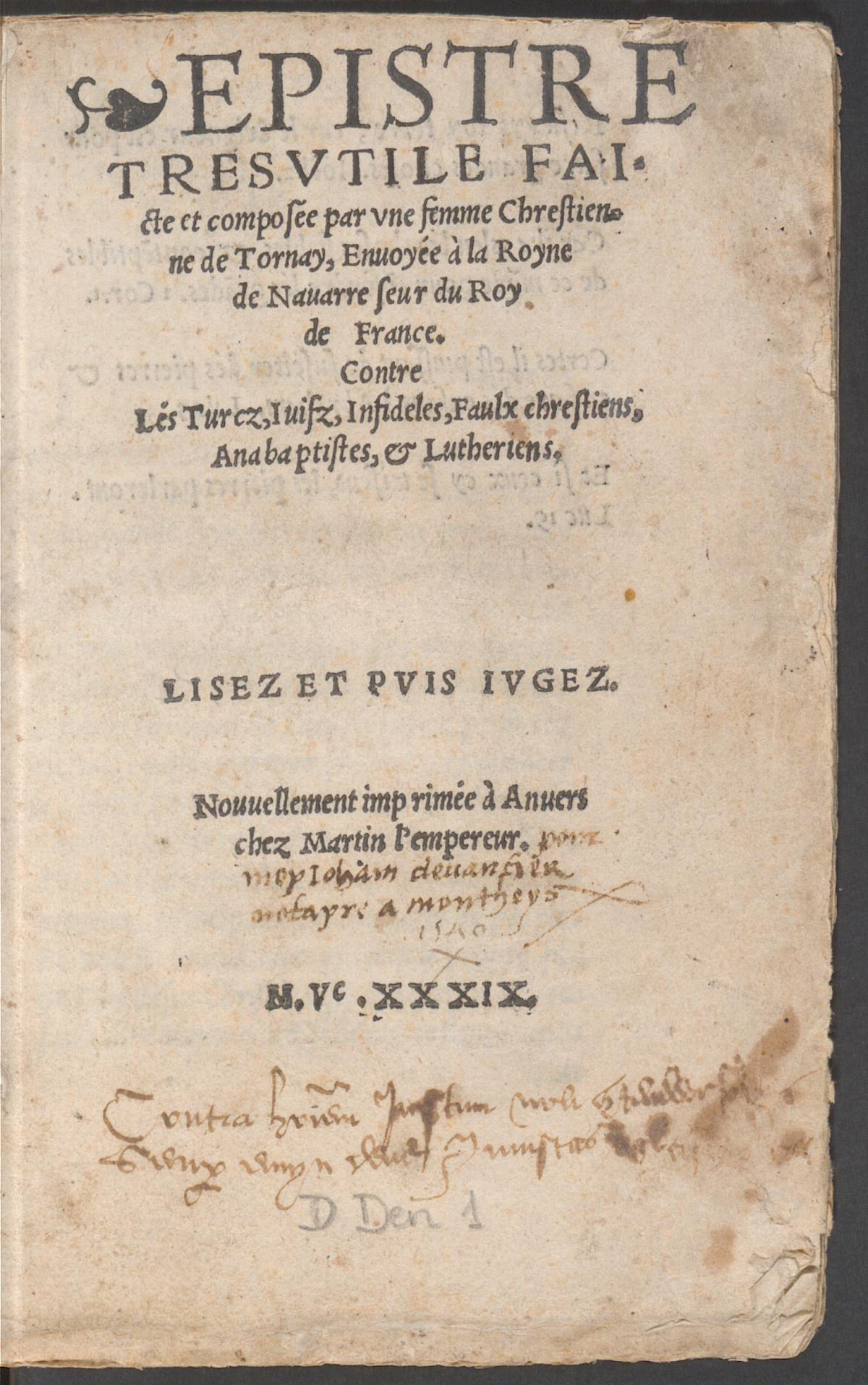 Portada de la Epistre tresutile… de Marie Dentière, publicada en Amberes en marzo de 1539.